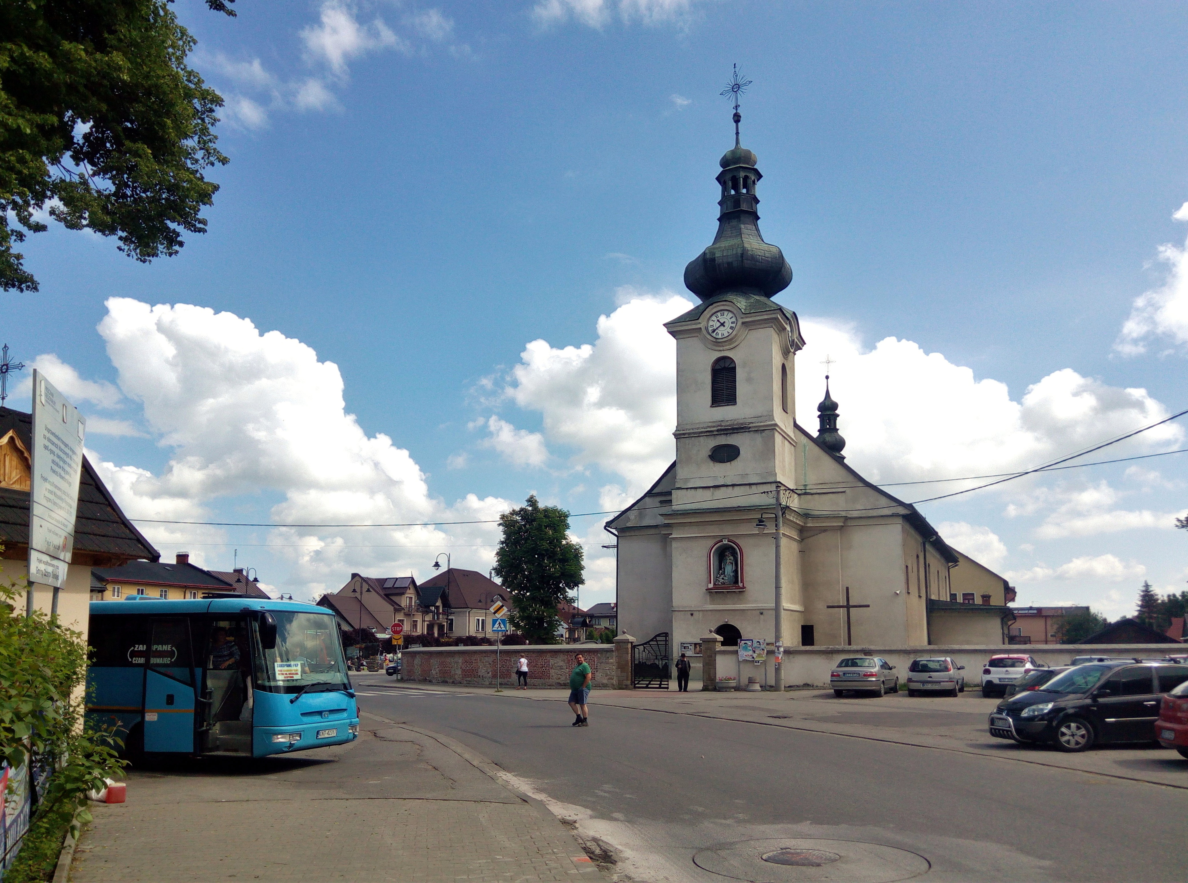 Catholic Holy Trinity Church in Czarny Dunajec, Lesser Poland.